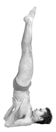 Rája Sarvángásana - Inverted position